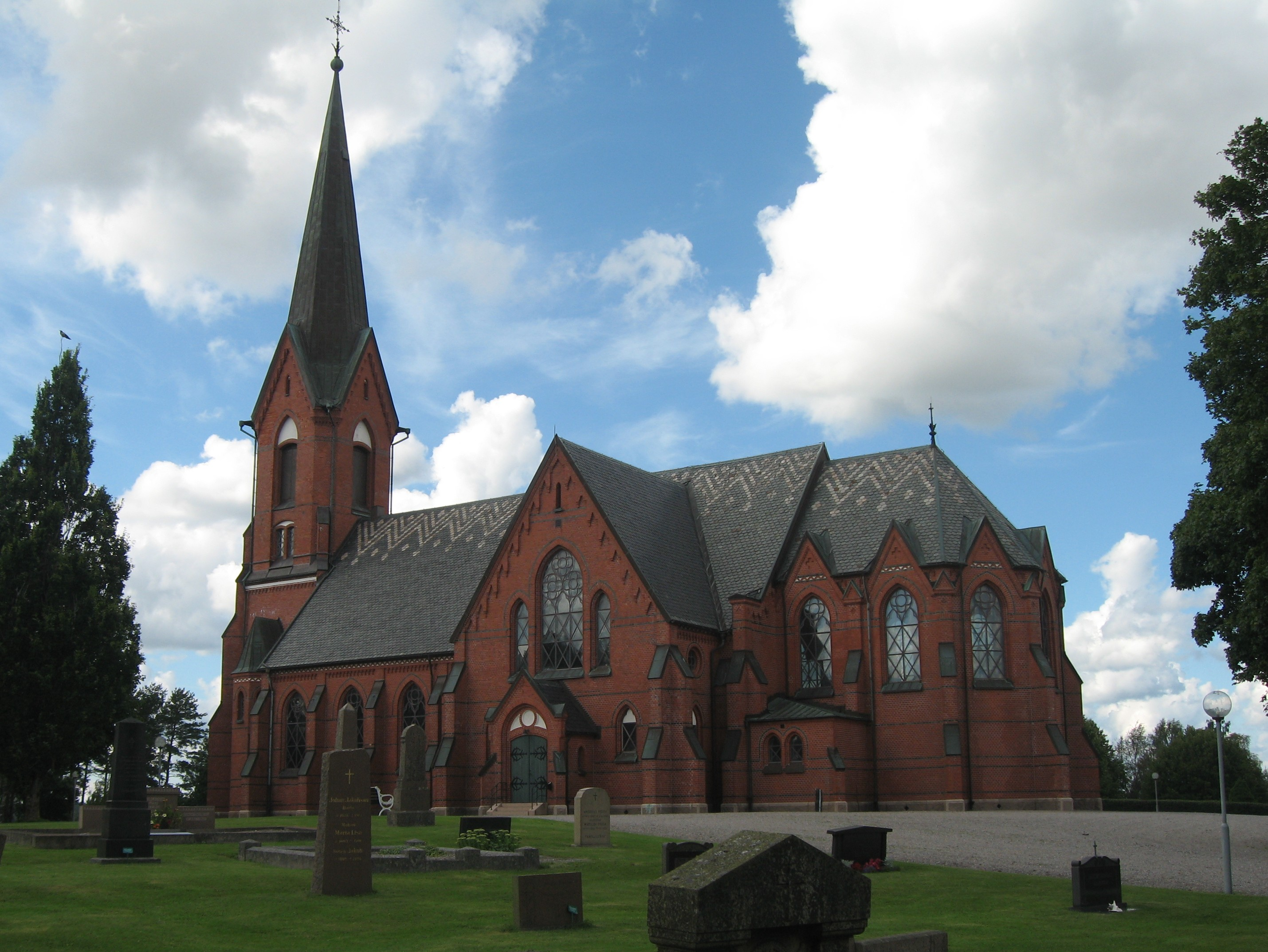 Högsäter church in southern Dalsland, Sweden.